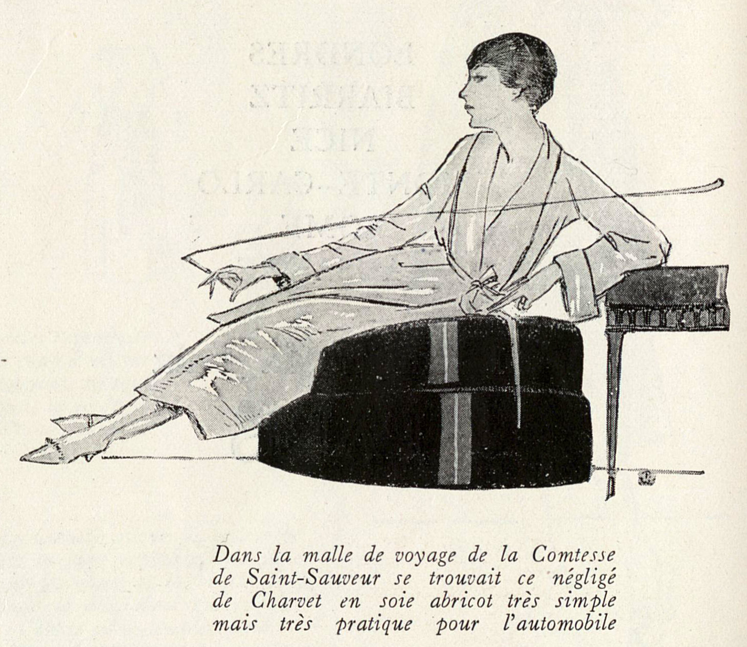 Illustration of an article in the French Vogue